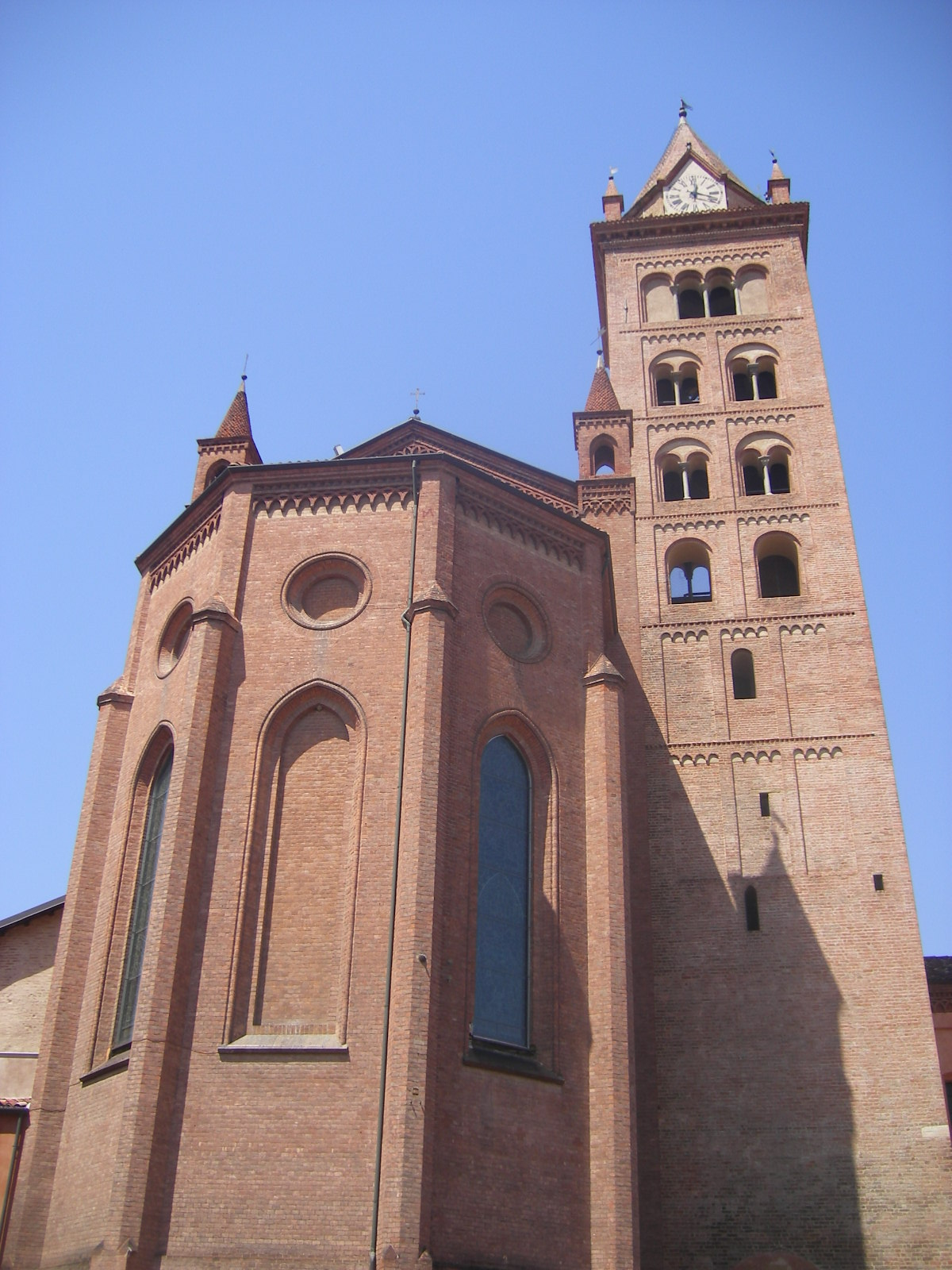 Alba - Cathedral